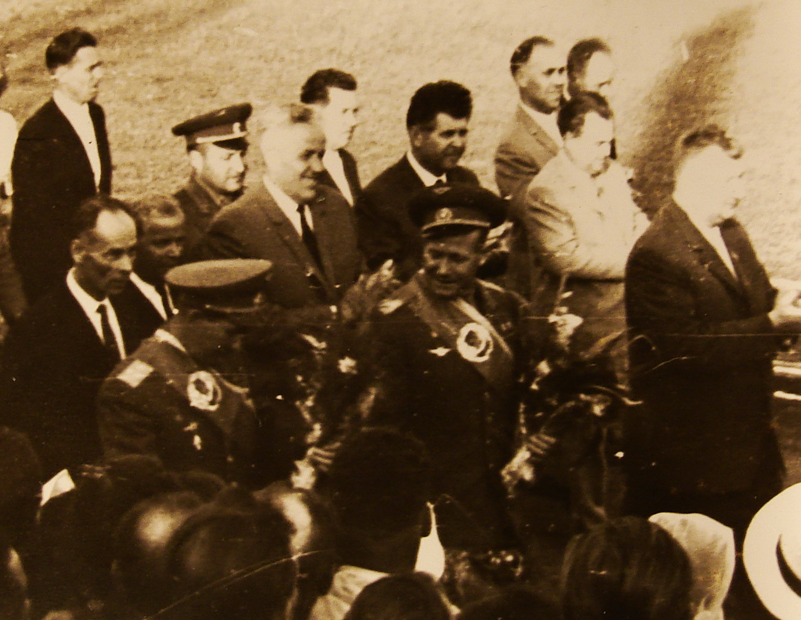 Russia, Vologda, Pavel Belyayev and Alexey Leonov (1965 year)